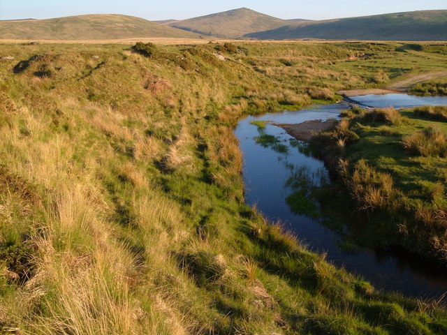 River Taw meander. The point at which a meander of the River Taw crosses into this square. A track fords the river on the right. Metheral Hill and Steeperton Tor in the distance.